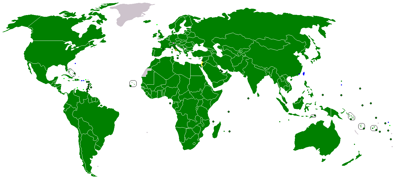 UNESCO membership UNESCO member states UNESCO member state dependent territory with separate NOC UNESCO associates UNESCO observers